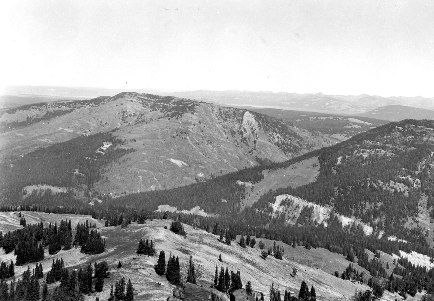 Yellowstone National Park, Wyoming. Northeast from the top of Mount Hancock. Unconformable contact between the Bacon Ridge Sandstone and the Harebell Formation; Chicken Ridge and an exposure of 3,000 feet of the Harebell, Sickle Creek, Barlow Peak; and an exposure of 2,700 feet of Harebell, Cody Shale, and the Southeast Arm of Yellowstone Lake. Lower part of the type section of the Harebell Formation is at the extreme right margin. Circa 1967. Figure 5, U.S. Geological Survey